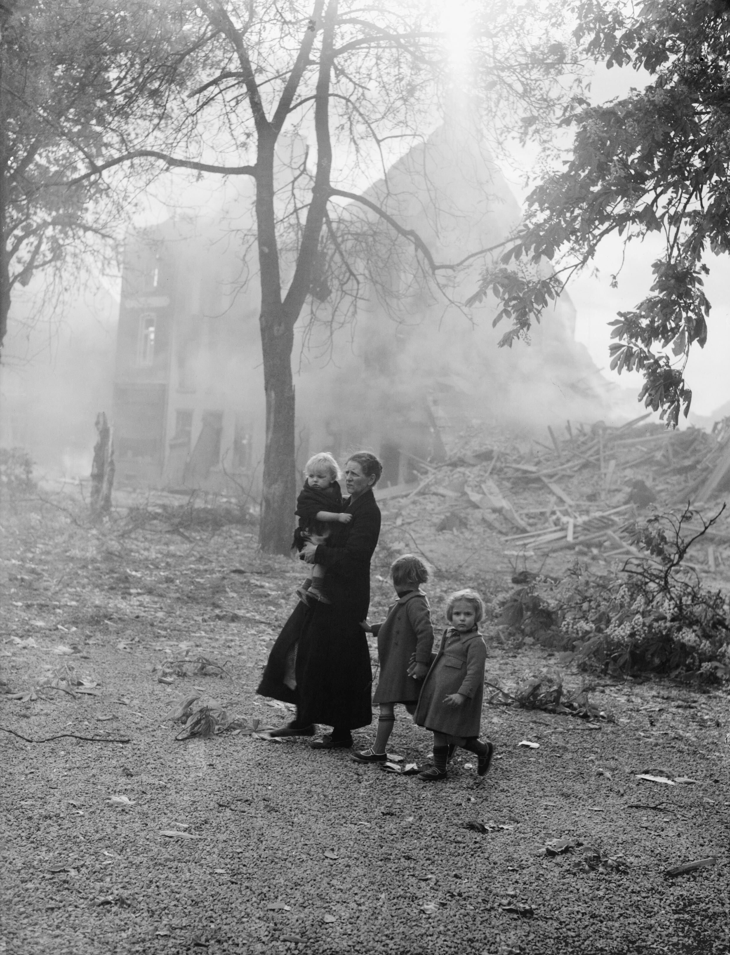 Refugees in Belgium, May 1940 A mother and her three children amid the ruins of Enghien.